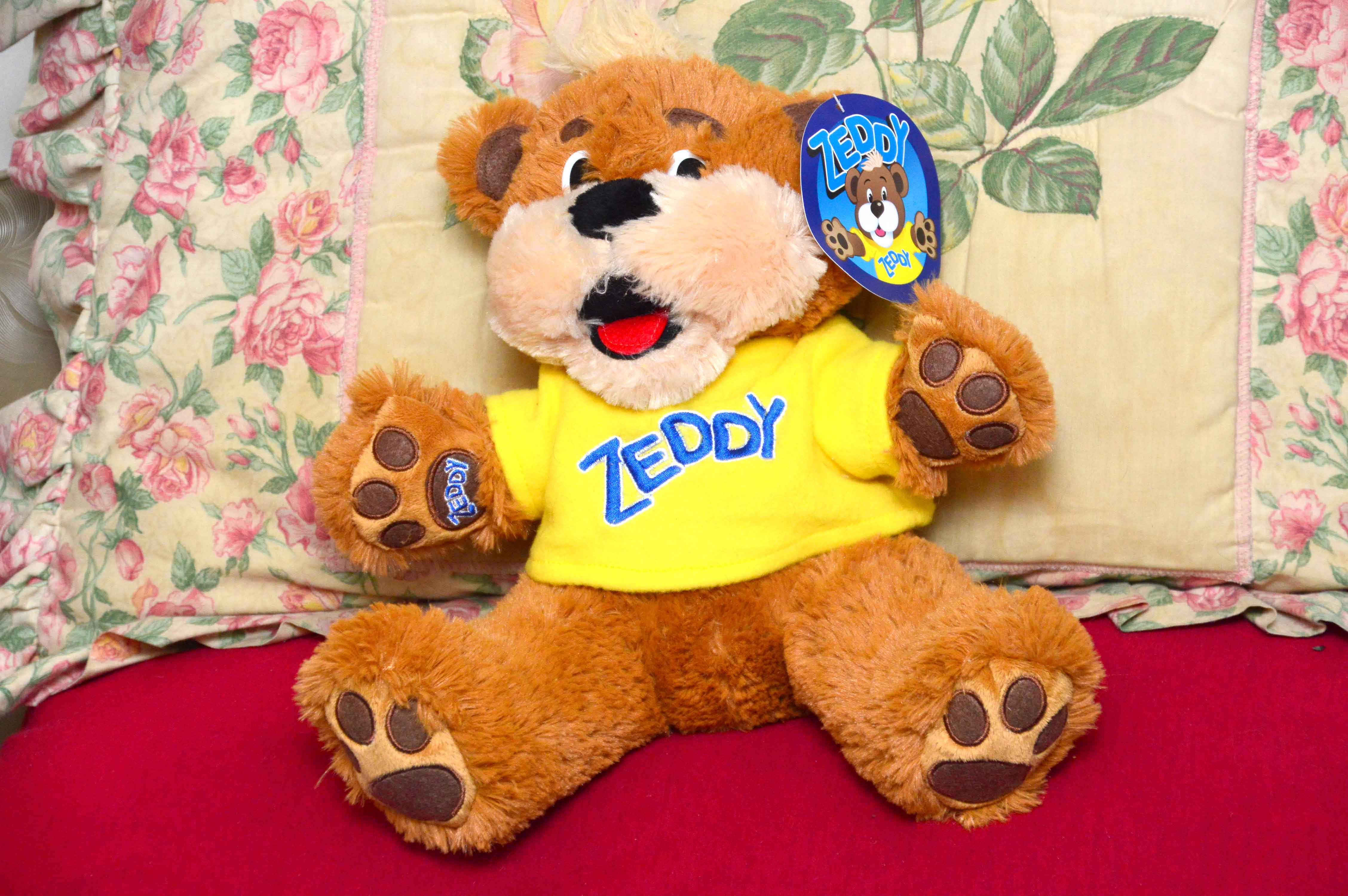 A Zeddy bear. This stuffed mascot was produced by the defunct Zellers retail chain in the last months of the store's existence.